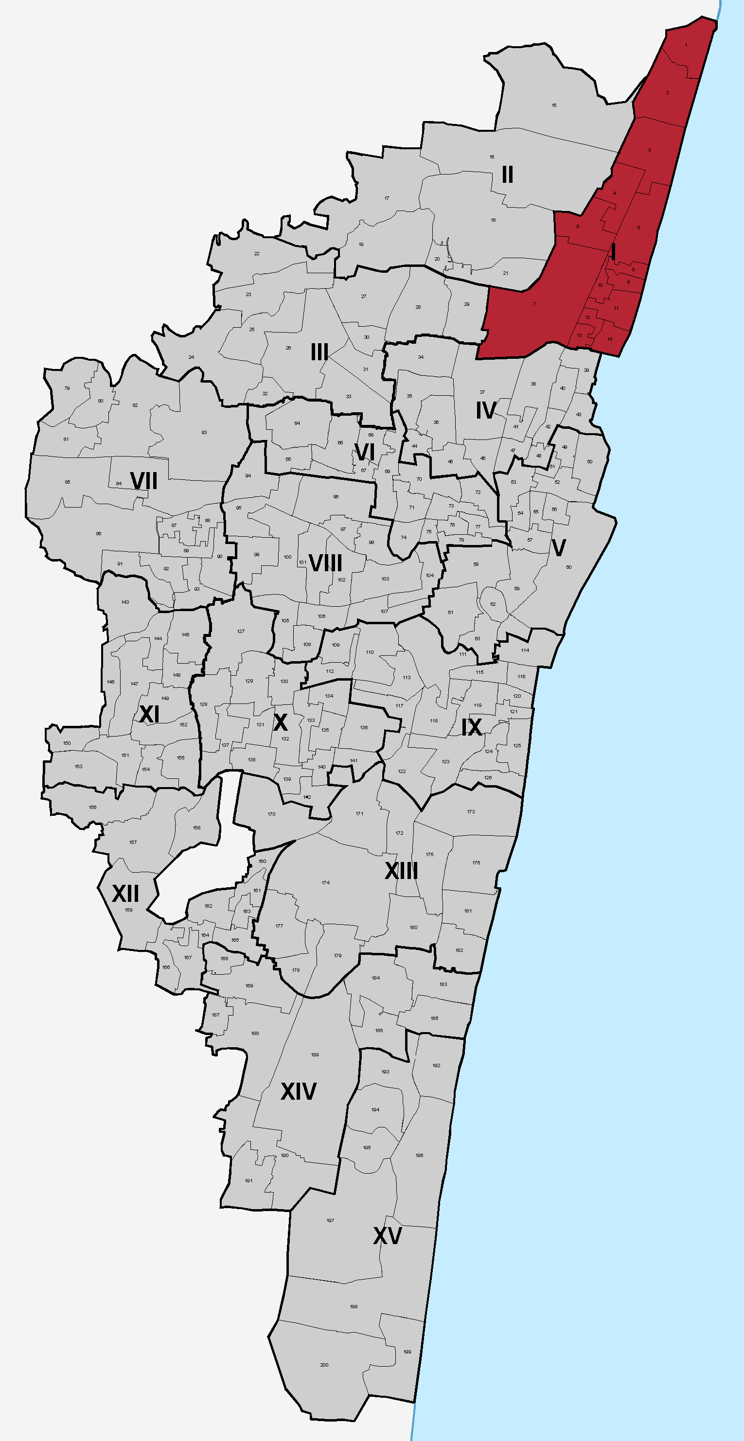 Location of Thiruvottiyur zone in Chennai